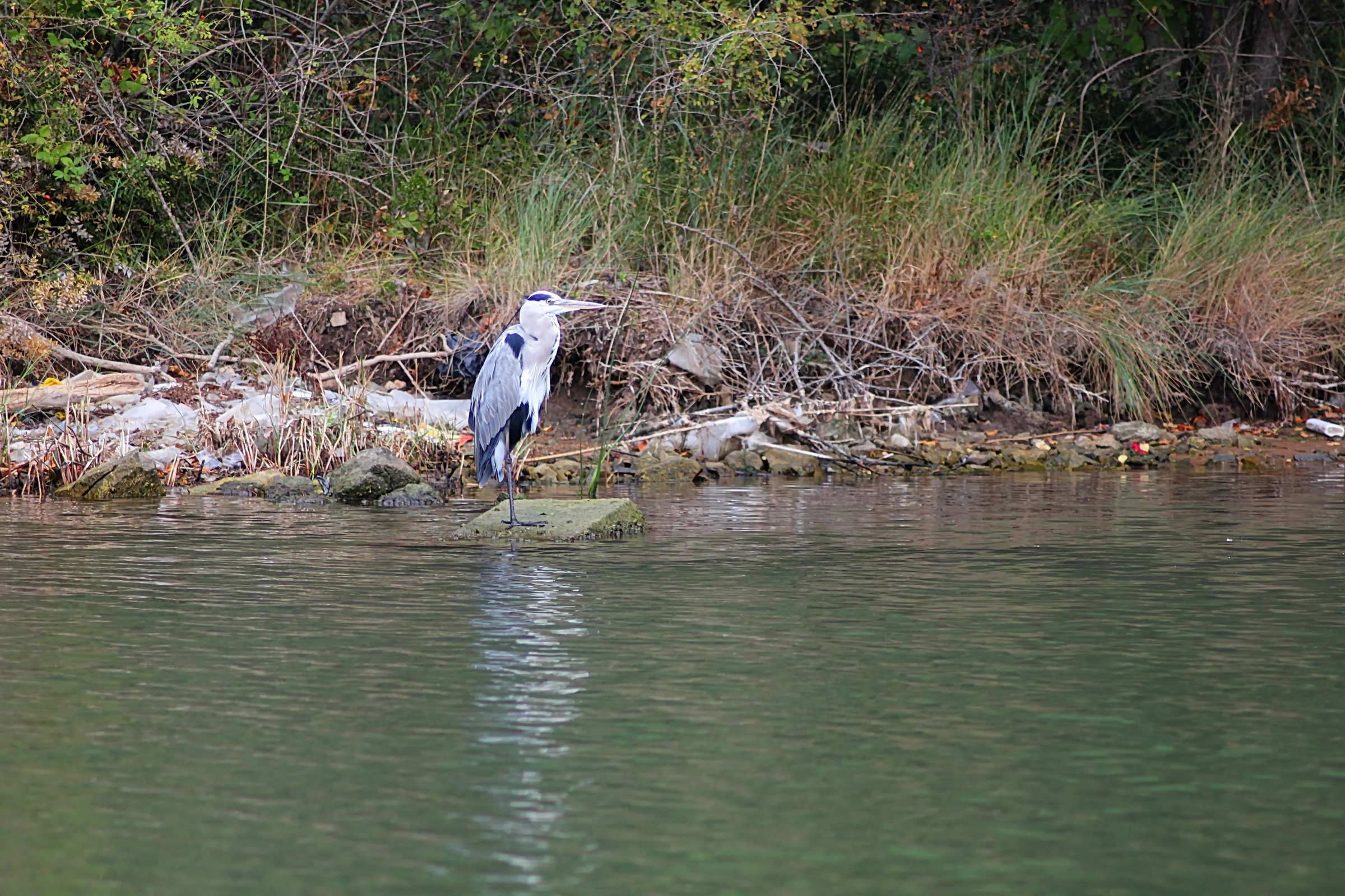 Ropotamo Reserve, Bulgaria